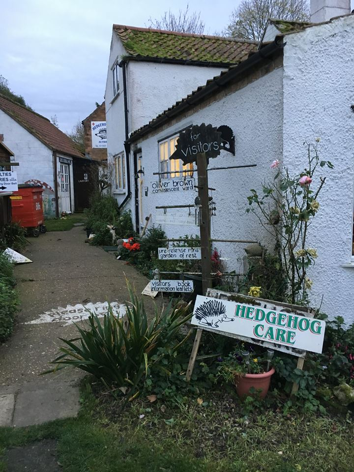 The entrance to Hedgehog Care in Authorpe, Lincolnshire, 2017.